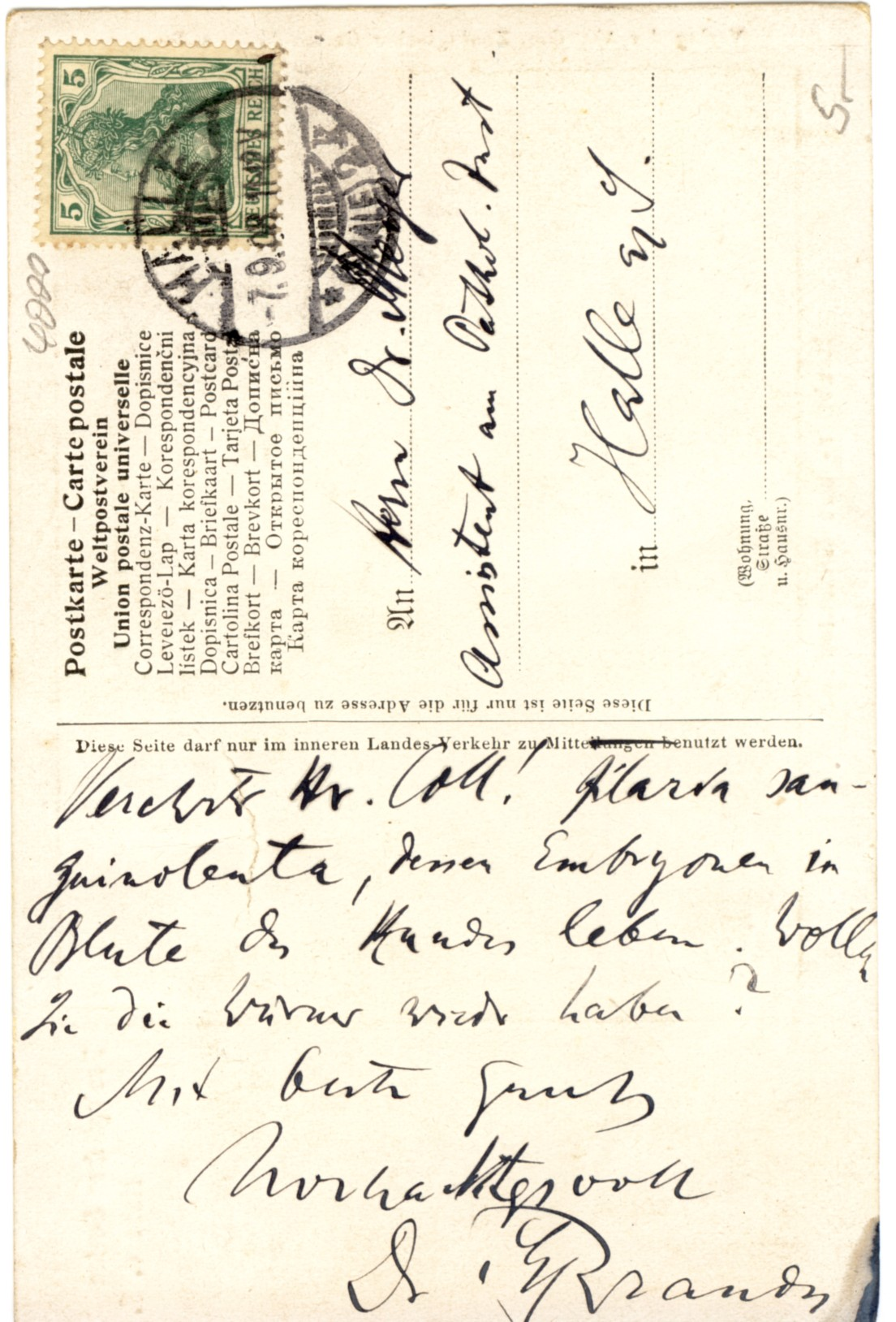 Message of Dr. Gustav Brandes (then director of Halle Zoo) about the determination of a parasite on a picture postcard of Halle Zoo/Germany.